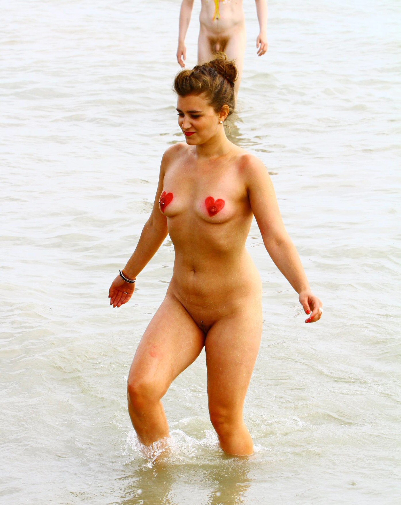 WNBR Brighton 2015